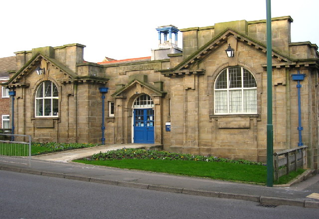 Annfield Plain Public Library. Durham's only Carnegie Library, this handsome building was erected in 1908.